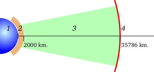 Satellite's orbits altitude schematics.